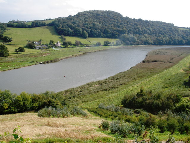 River Tamar, near Bohetherick